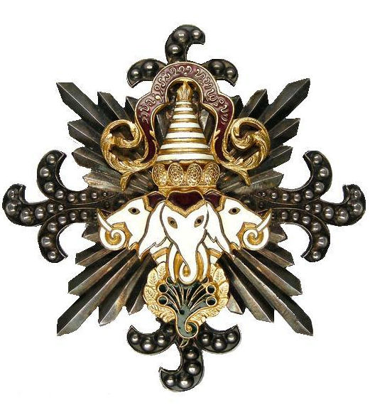 Ordre du Million d’Éléphants et du Parasol Blanc Order of the Milion Elephants and the White Parasol (Laos) 1909